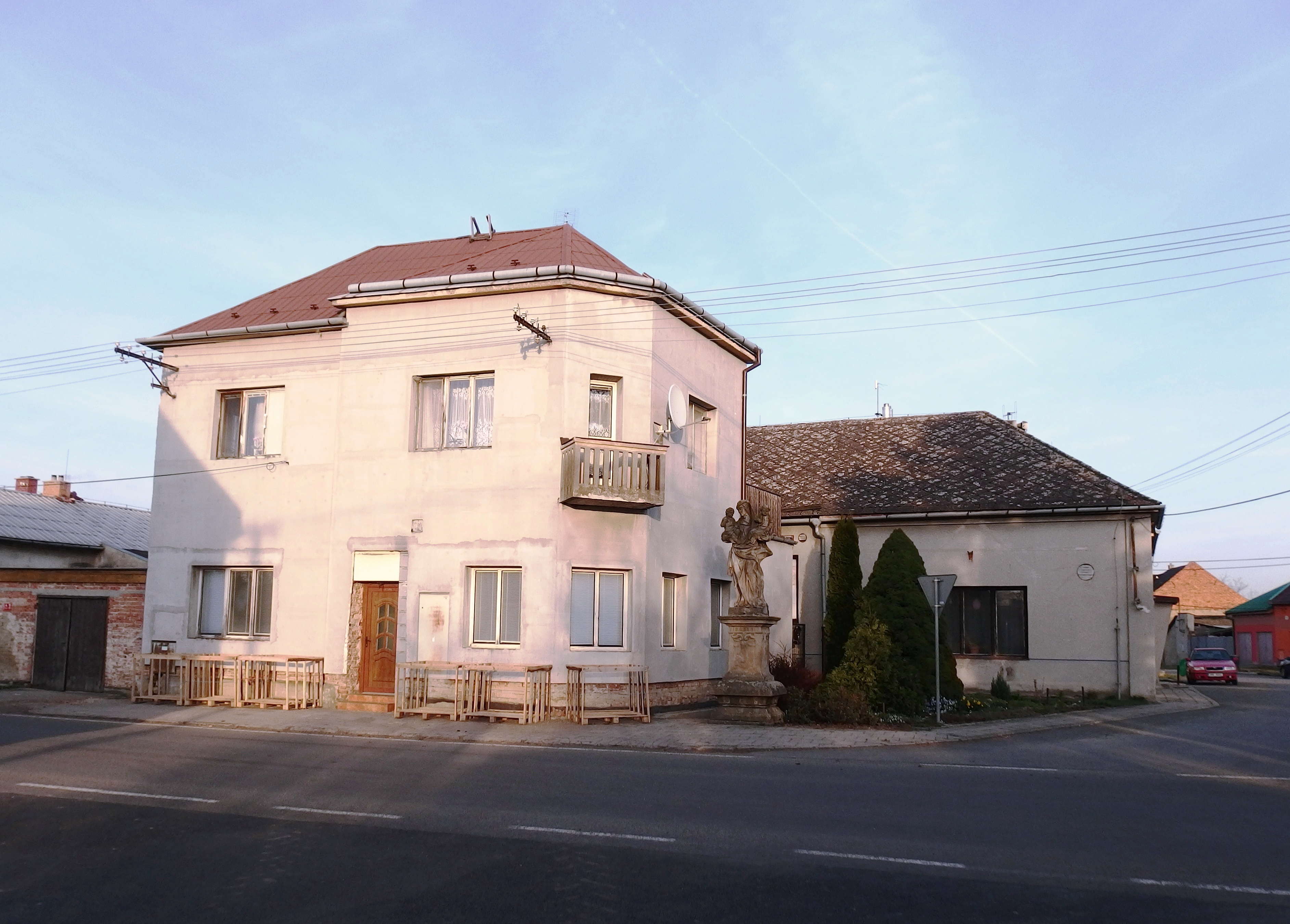 Kojetín, Přerov District, Czech Republic, part Popůvky.